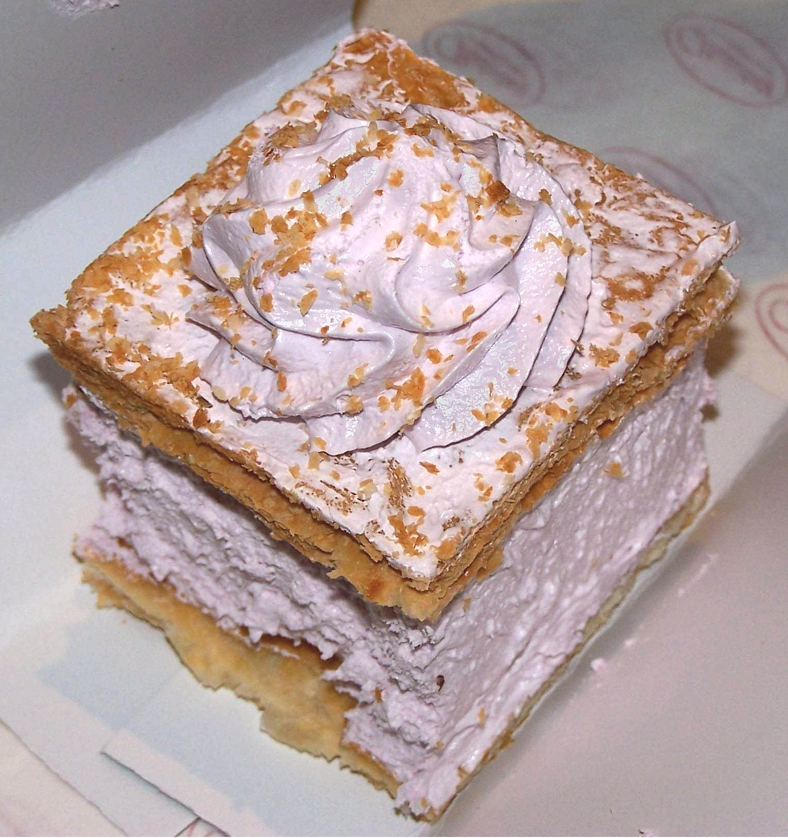 Photo by Piotrus. Napoleon.